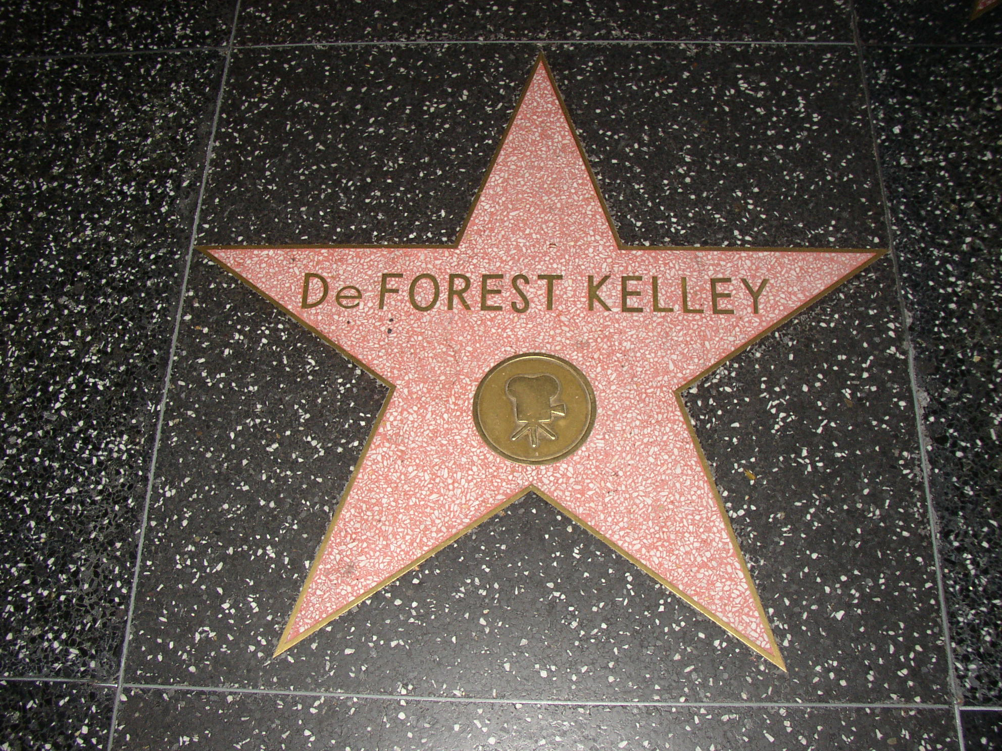 DeForest Kelley's Walk of Fame star.